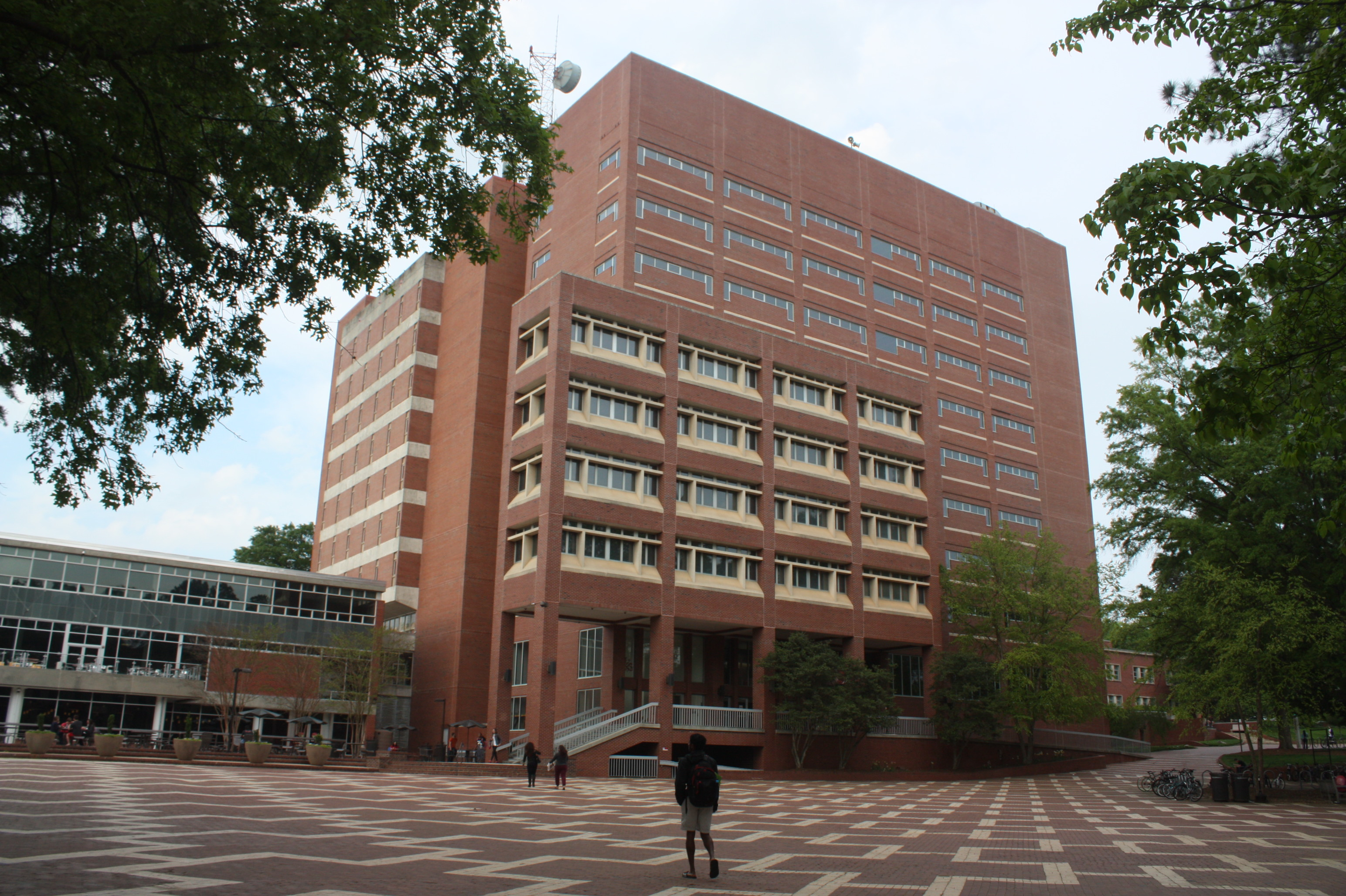 The D.H. Hill Library is located on the North Carolina State University campus. It is the main campus library.